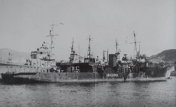 Japan Demobilization Agency Awashima